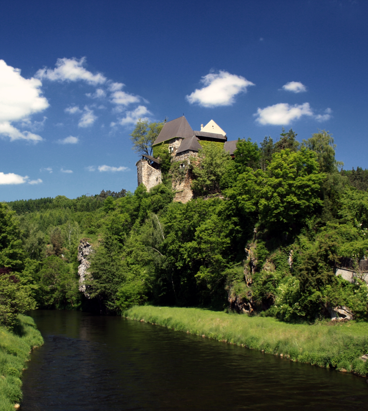 Castle Krumau in Krumau am Kamp, Lower Austria